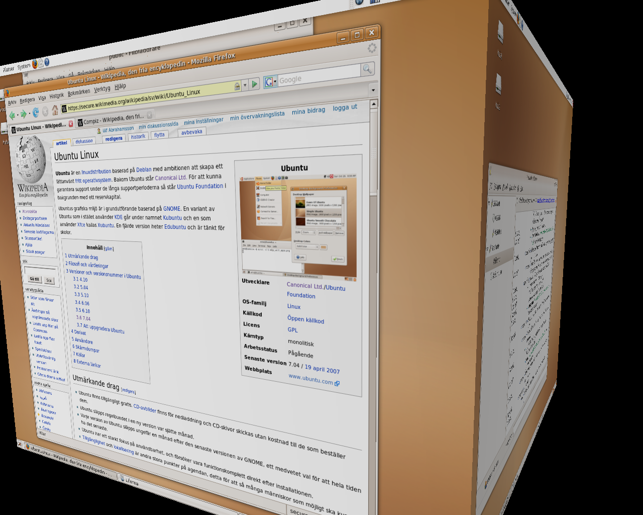 Ubuntu 7.04 "Feisty Fawn" with the Compiz Cube. It's the Swedish version of Ubuntu.